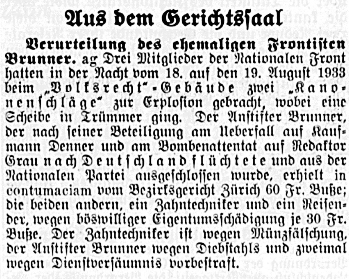 article about court proceedings in Zurich following a nazi attack on the premises of Volksrecht newspaper Transliteration: Aus dem Gerichtssaal: Verurteilung des ehemaligen Frontisten Brunner. ag Drei Mitglieder der Nationalen Front hatten in der Nacht vom 18. auf den 19. August 1933 beim "Volksrecht"-Gebäude zwei "Kanonenschläge" zur Explosion gebracht, wobei eine Scheibe in Trümmer ging. Der Anstifter Brunner, der nach seiner Beteiligung am Ueberfall auf Kaufmann Denner und am Bombenattentat auf Redaktor Grau nach Deutschland flüchtete und aus der Nationalen Partei ausgeschlossen wurde, erhielt in contumaciam vom Bezirksgericht Zürich 60 Fr. Busse; die beiden anderen, ein Zahntechniker und ein Reisender, wegen böswilliger Eigentumsschädigung je 30 Fr. Busse. Der Zahntechniker ist wegen Münzfälschung, der Anstifter Brunner wegen Diebstahls und zweimal wegen Dienstversäumnis vorbestraft.